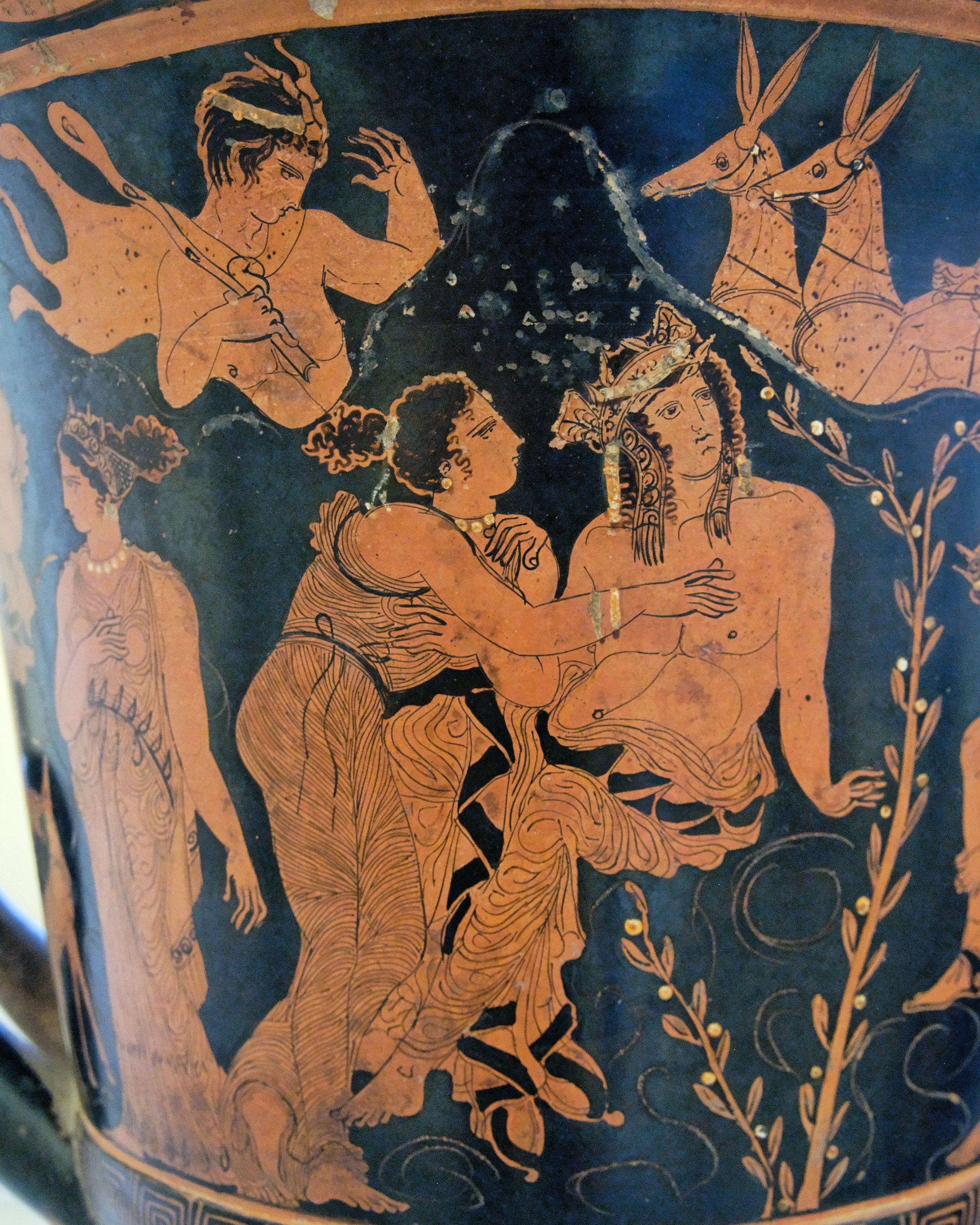 Phaon and Aphrodite, woman and Eros (?); kalos inscription ("Phaon kalos"). Side A of an Attic red-figure calyx-krater.